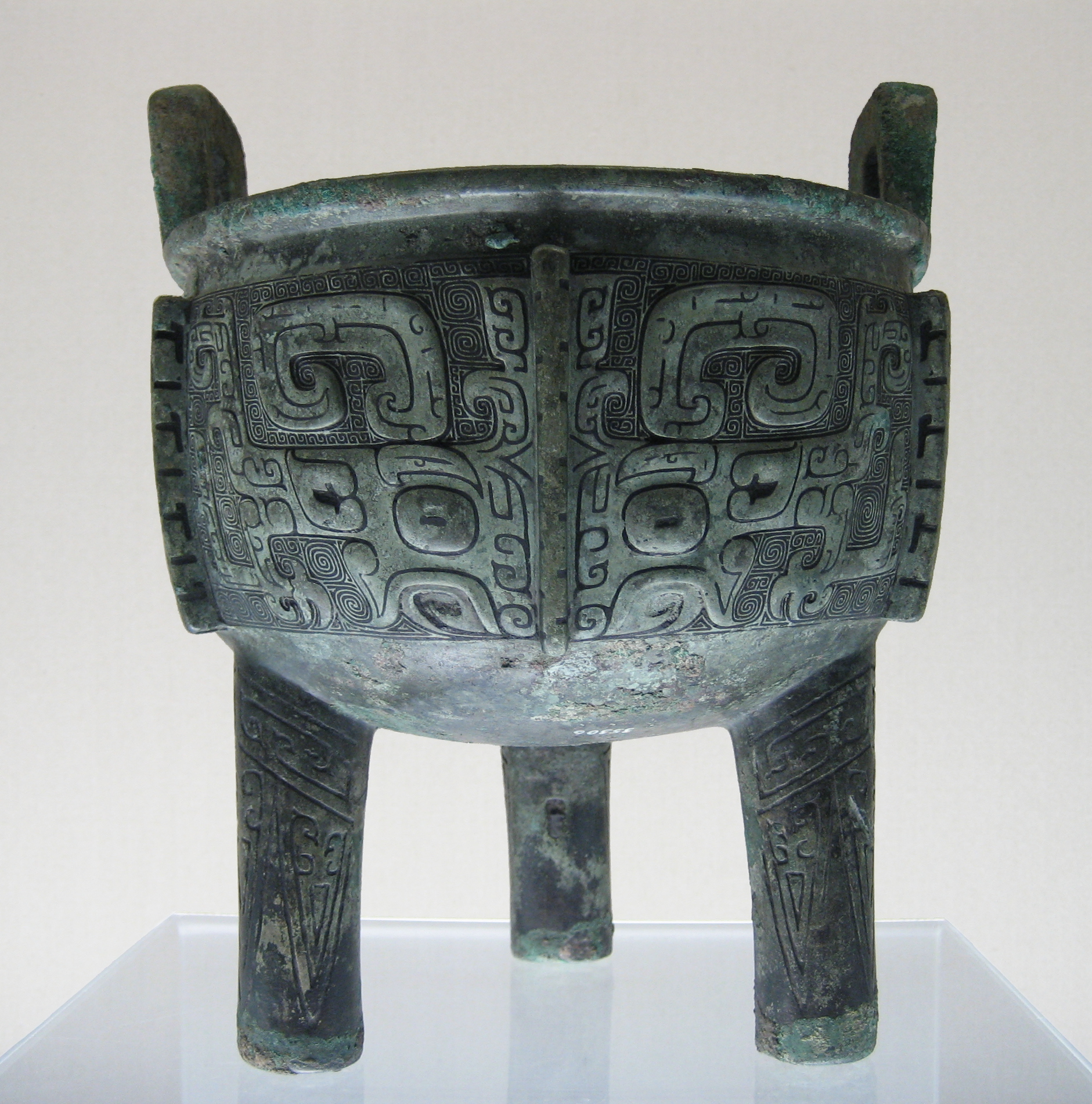 A ding, Late Shang Dynasty, Shanghai Museum